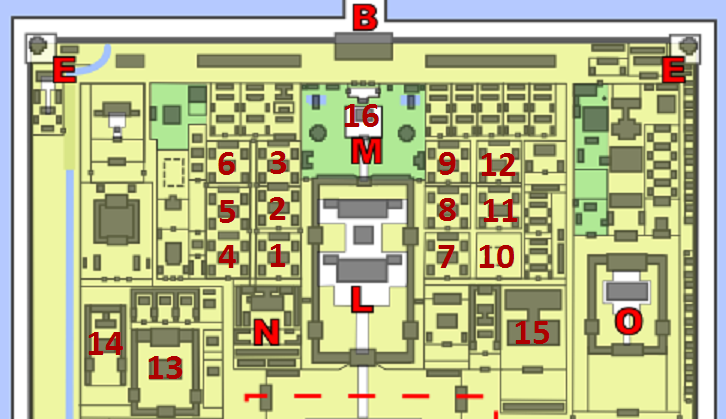 Inner Palace of Forbidden City